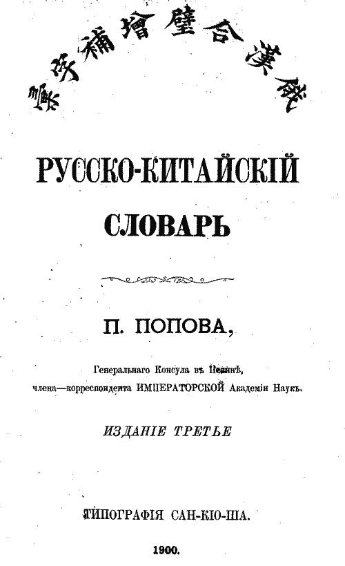 Russian-Chinese dictionary by P. Popov, 1900